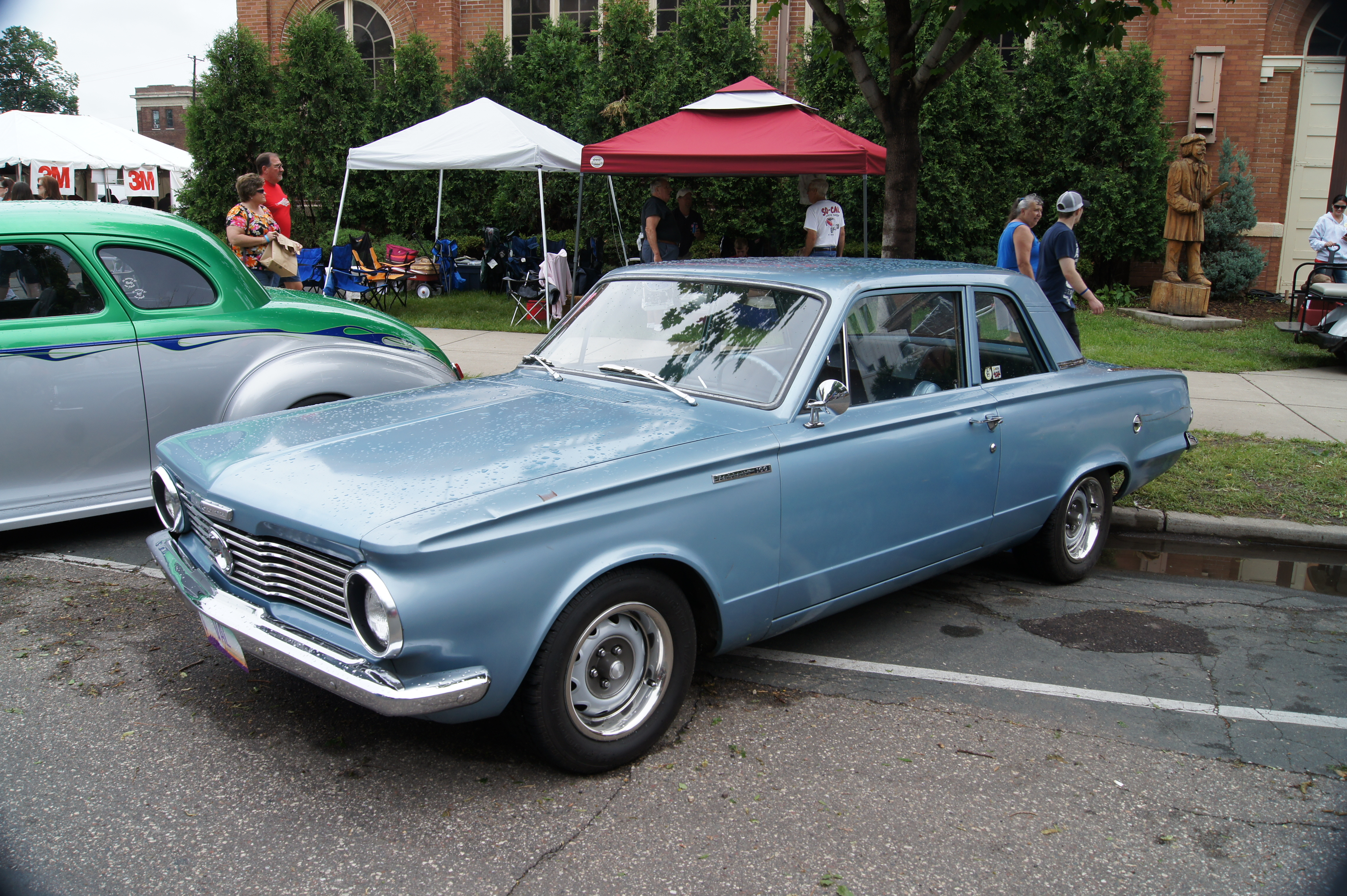 MSRA “BACK TO THE 50′s” 40th ANNIVERSARY June 21-23, 2013 State Fairgrounds St. Paul Minnesota More Car Pictures